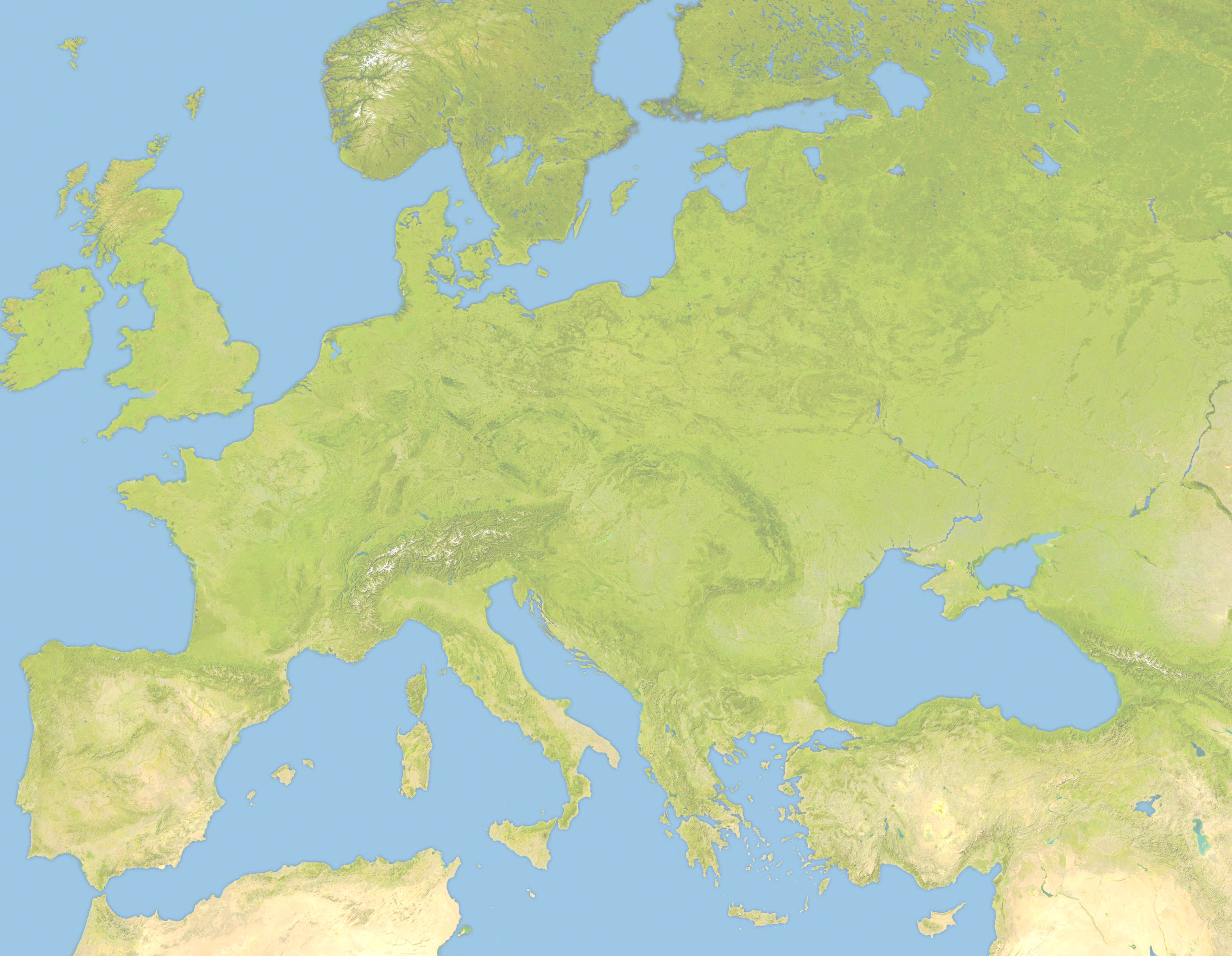 Location map of Europe, satellite image Equirectangular projection, N/S stretching 150 %. Geographic limits of the map: * N: 63.5° N * S: 34° N * W: -10.25° W * E: 46.8° E